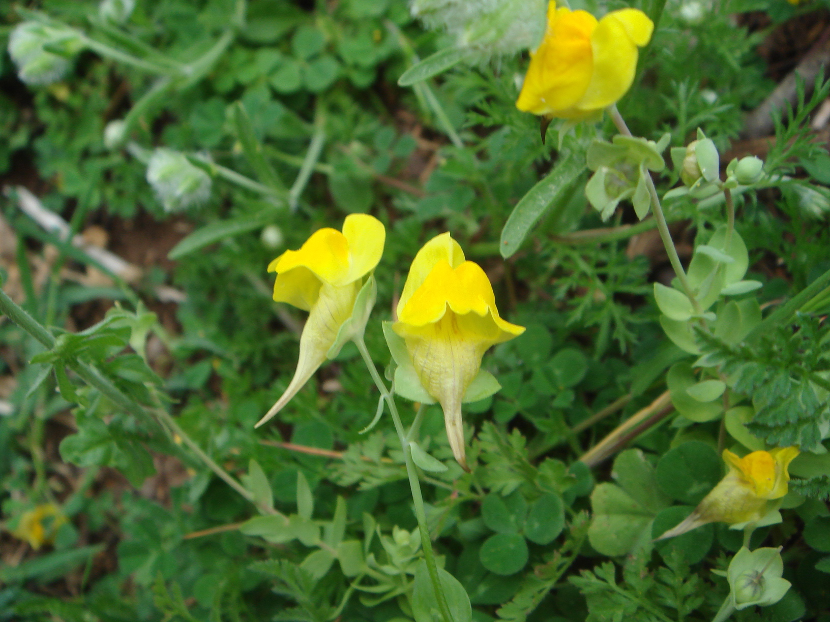 Linaria platycalyx, Grazalema, Cádiz (Spain)